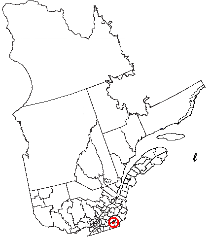 Locator map for the city of Sherbrooke, Québec.